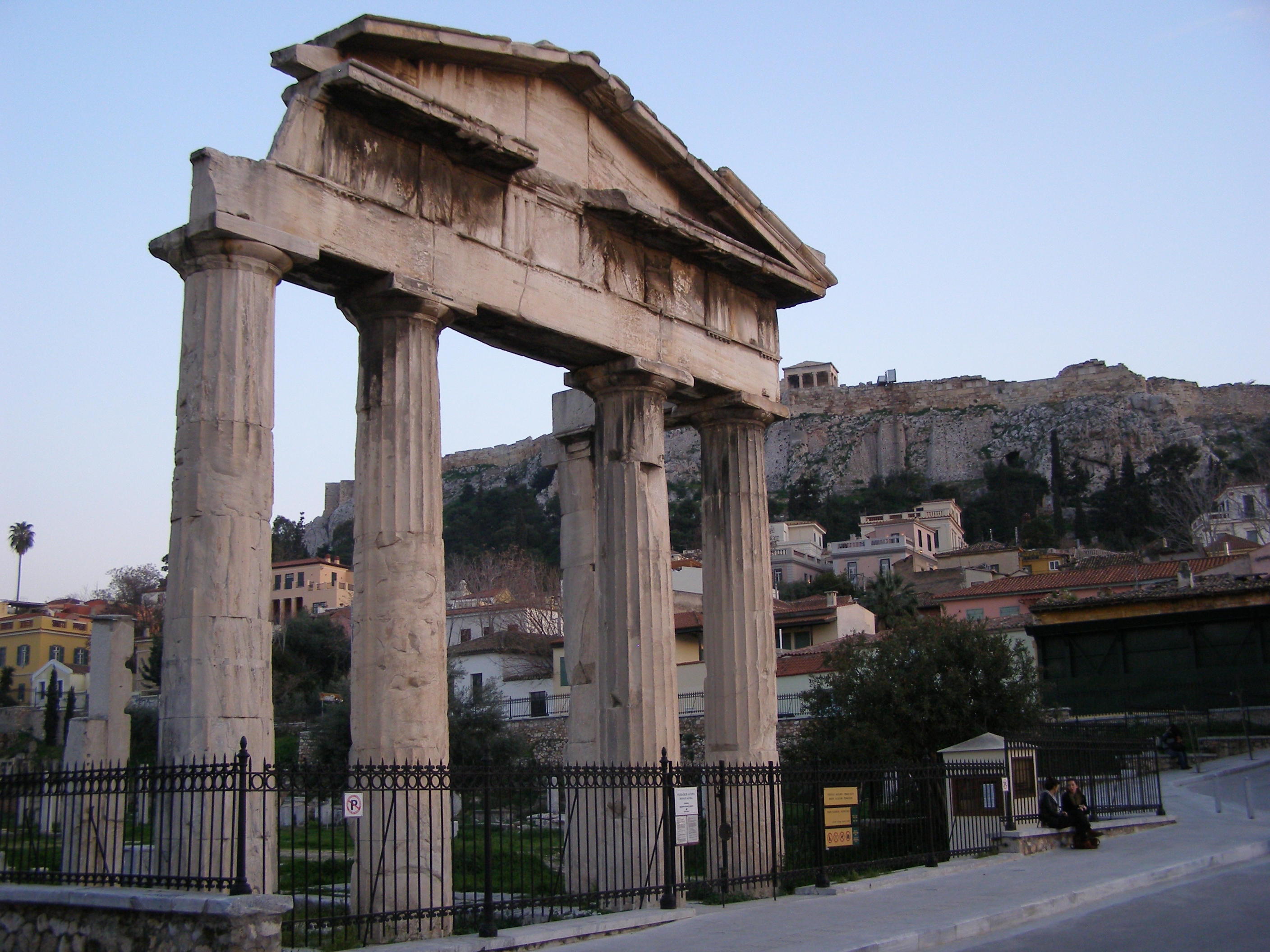 Athens - Roman Forum - Gate of Athena Archegetis